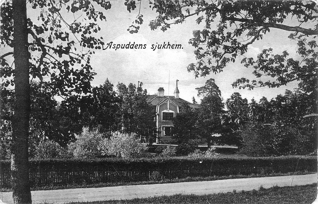 Hospital in Aspudden, Stockholm, early 1900s.